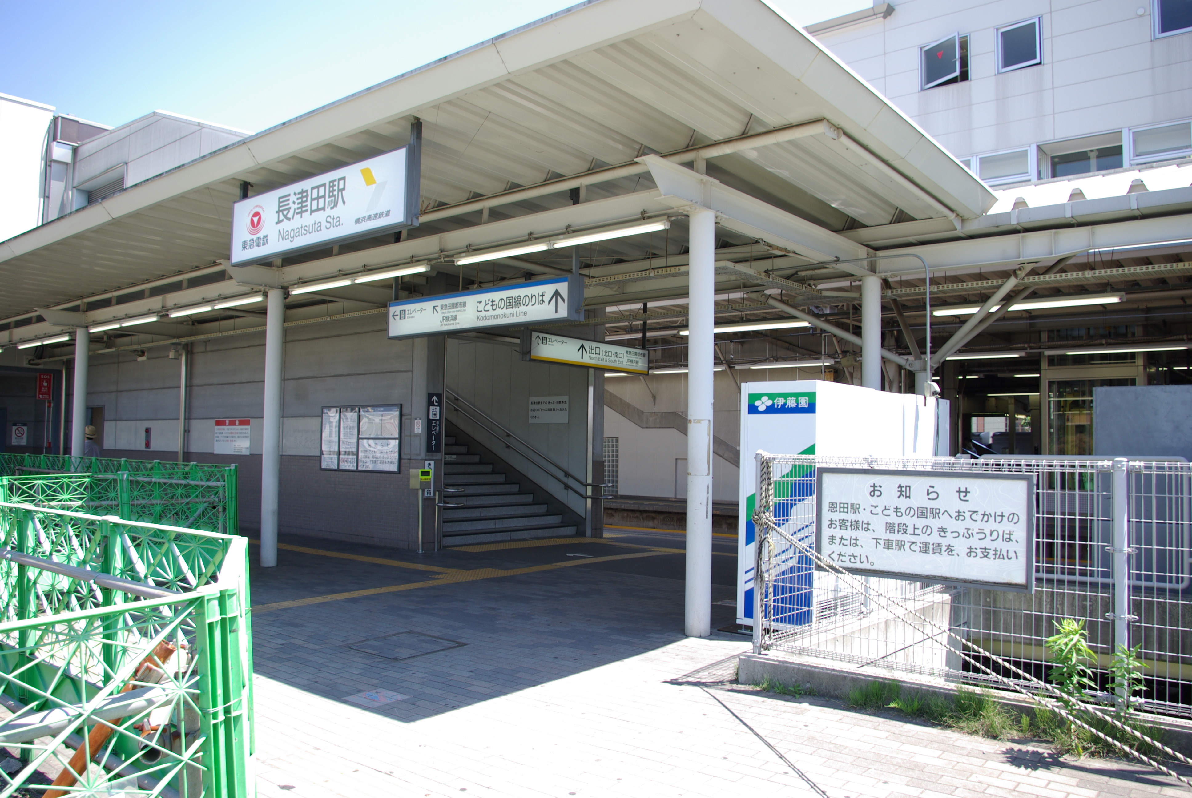 West entrance of Nagatsuta Station in Kanagawa Prefecture